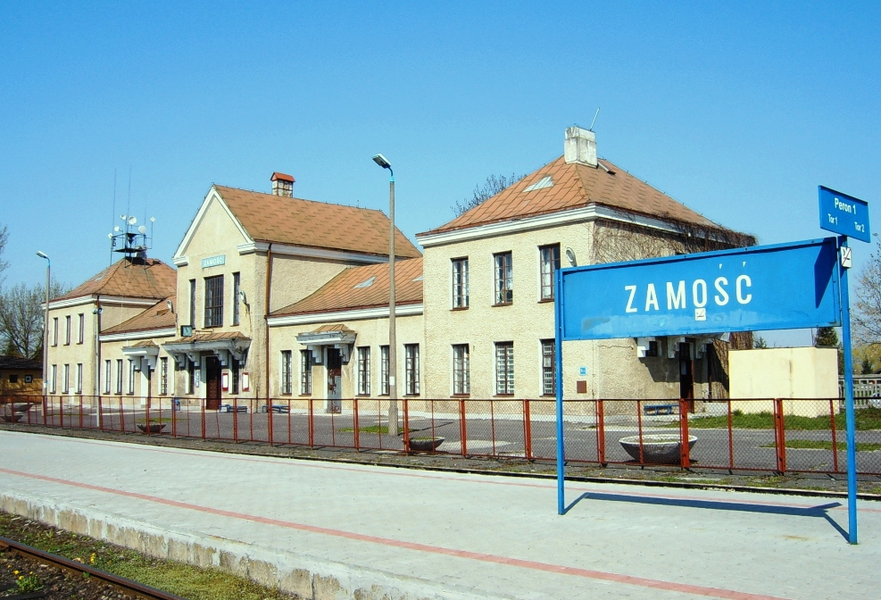 Railway station, Zamość.